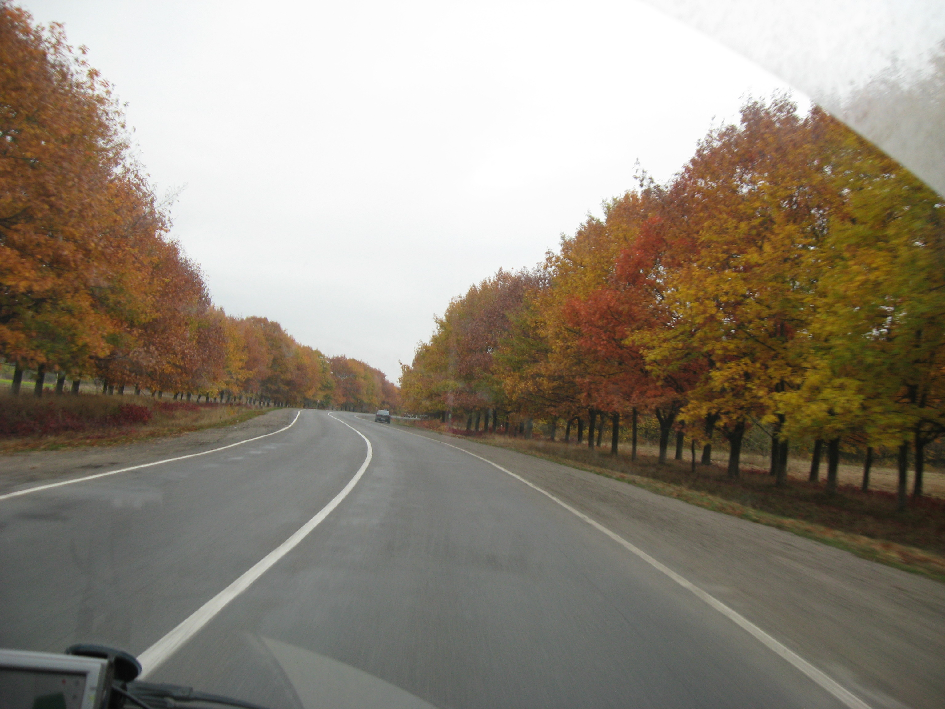 Highway M12, (european E50) in Vinnytsya Oblast, Ukraine